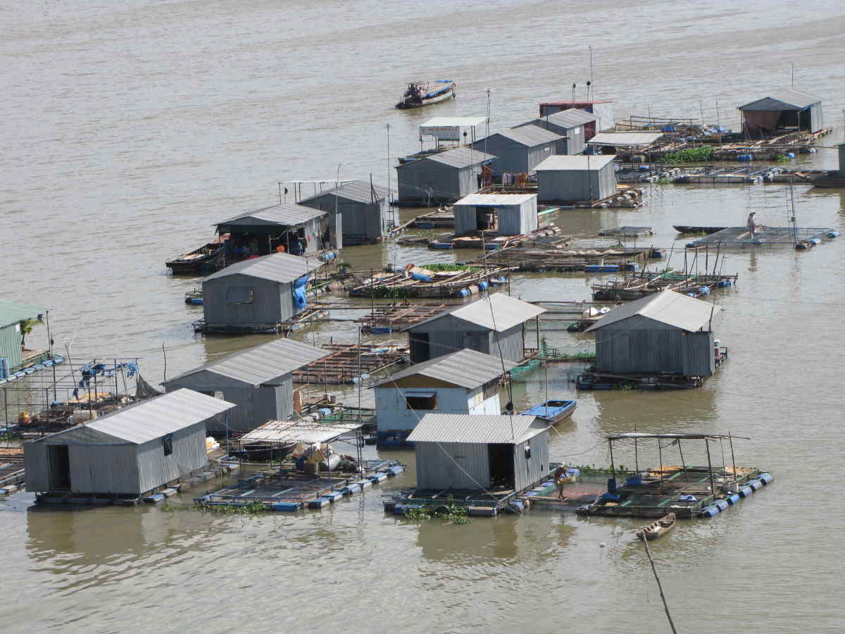 Fish farming in submerged cages in Vietnam.